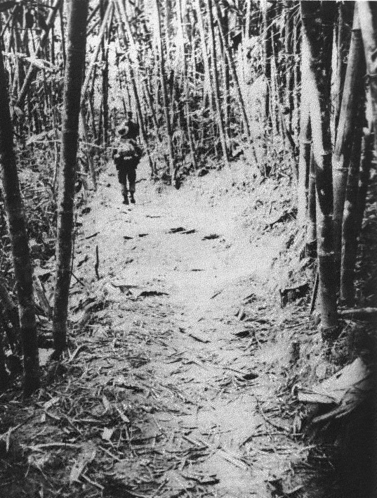 “In Laos a Studies and Observations Group (SOG) team reconnoiters the Ho Chi Minh Trail for installations and pipelines.”